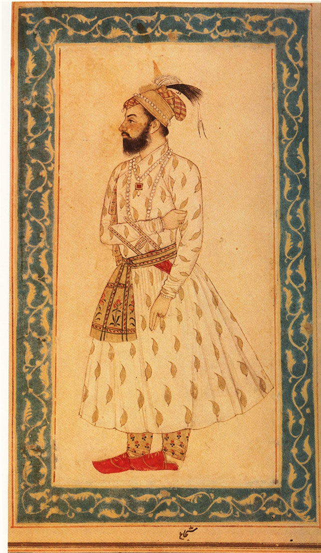 Shah Shuja, Imperial Mughal